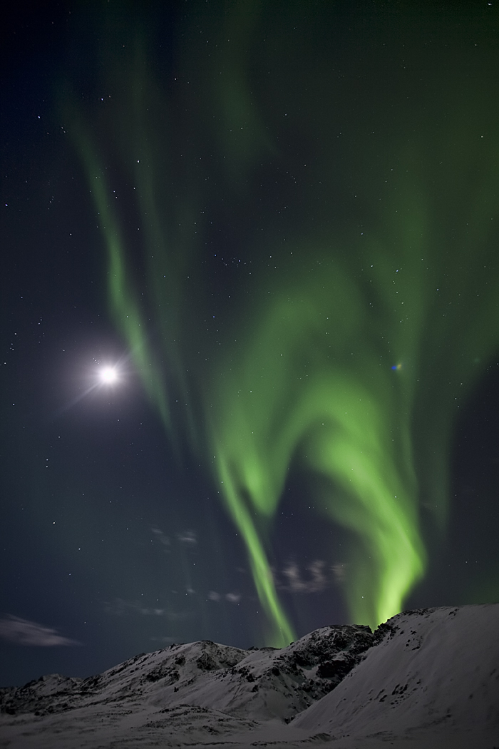 Aurora borealis - Norðurljós á Íslandi - Northern lights in Iceland February 3, 2009